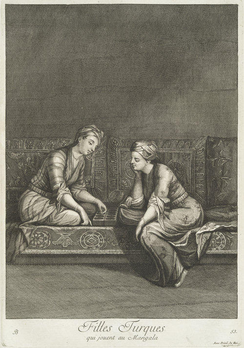 Illustrations of Ottomans by Jean-Baptiste Vanmour, 1707